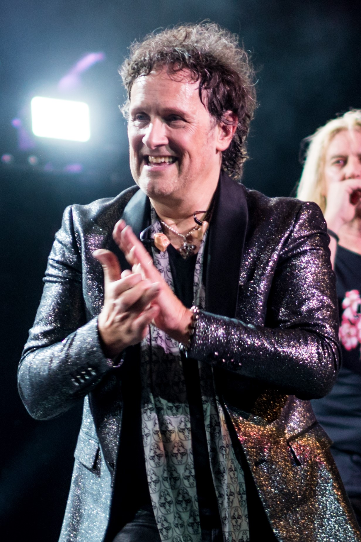 A cropped version of File:DefLepRAH250318-64 (41003756092).jpg